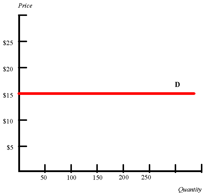 Perfectly Elastic Demand